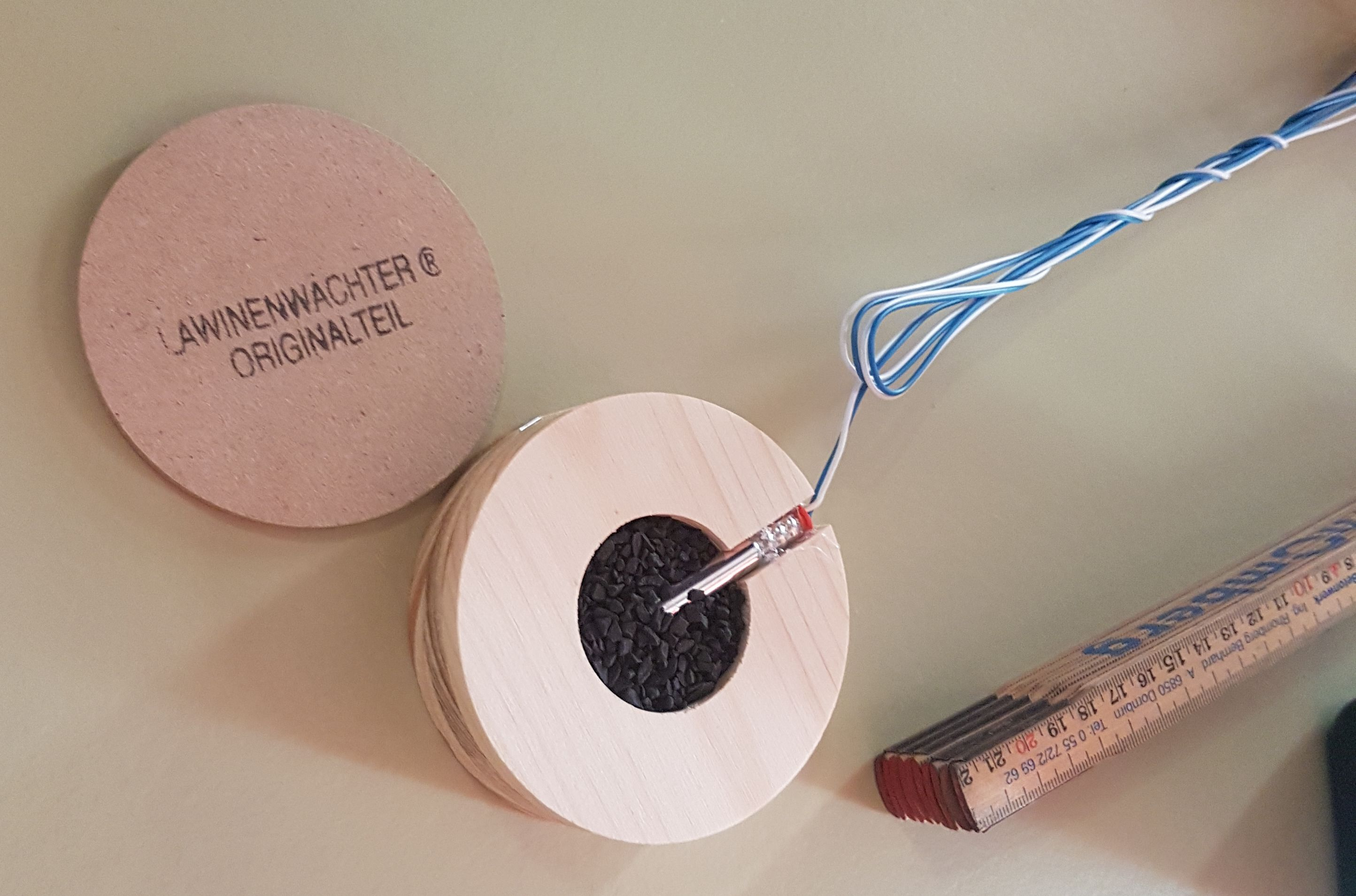 Lawienenwaechter (Avalanche guardian). Propellant charge for shooting the explosive charge.